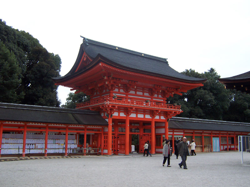 One of the main gates of Shimogamo Shrine, one of the oldest shrines in Kyoto.